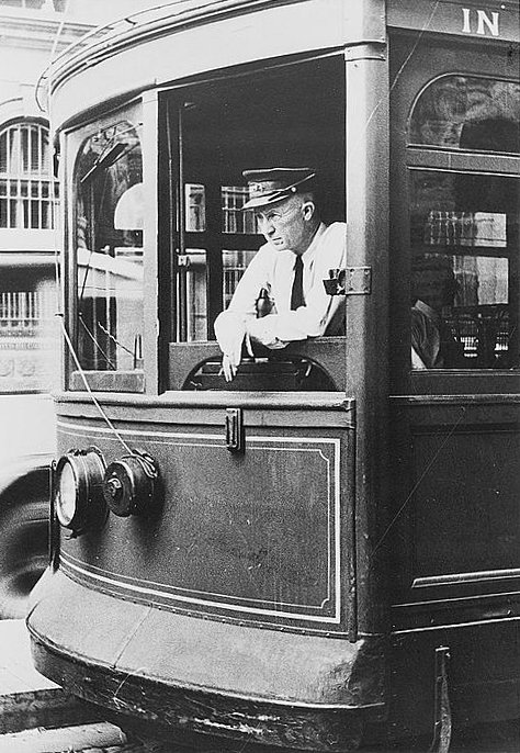 Street car motorman. Washington, D.C.